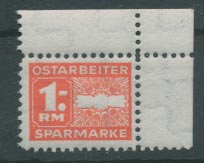 Ostarbeiter stamp used by Slave labourers from Ukraine in Germany in lieu of money